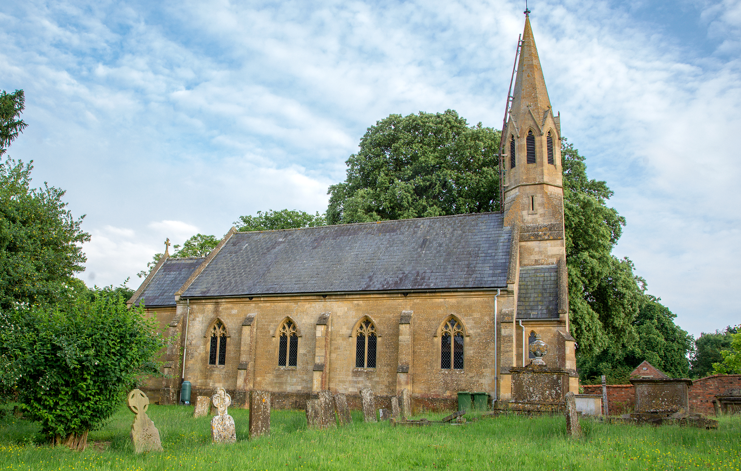 Side view of the church, including some old tombstones; St Peter Church in Stretton-on-Fosse, Cotswolds